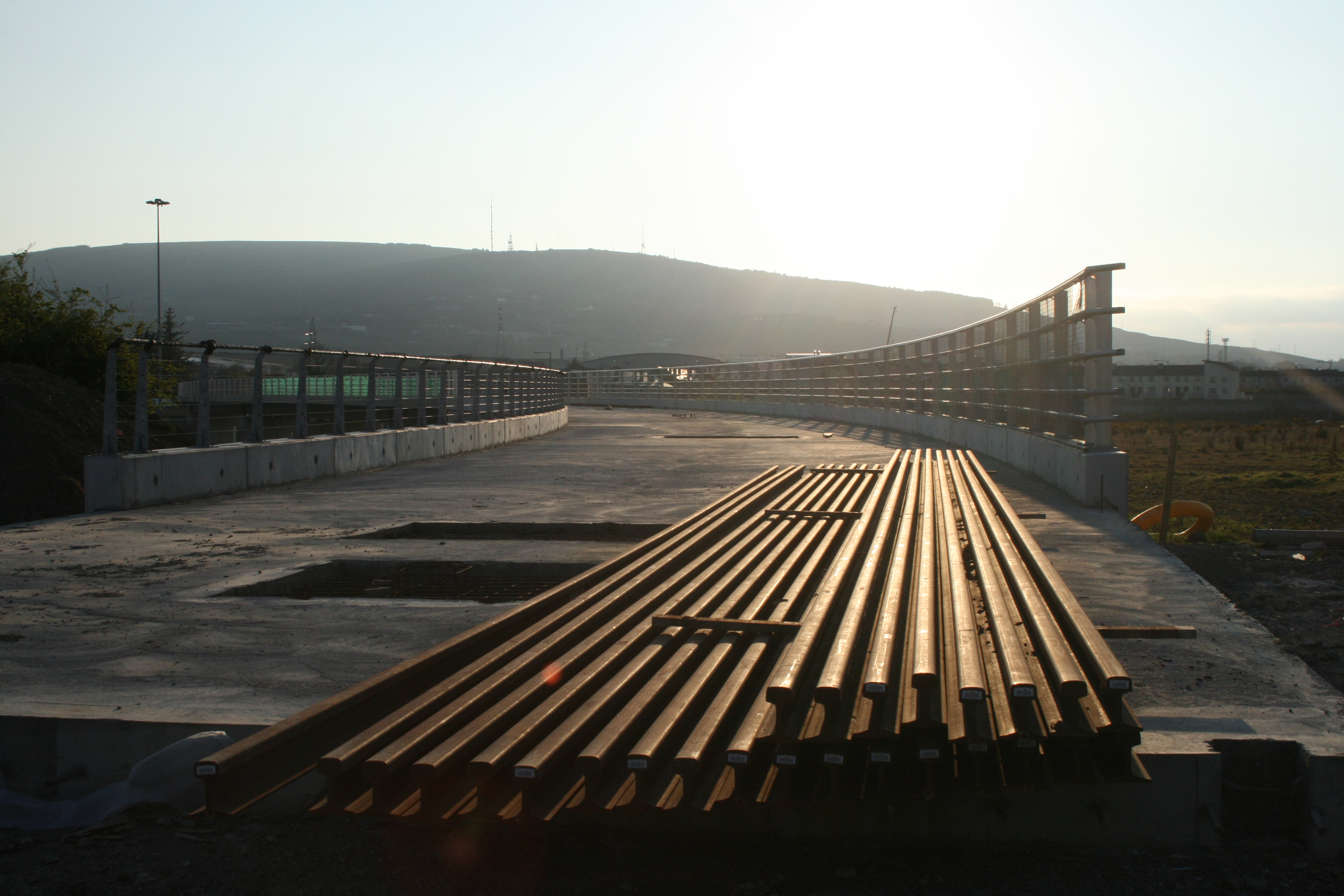 Luas bridge under construction over the M50 at Carrickmines